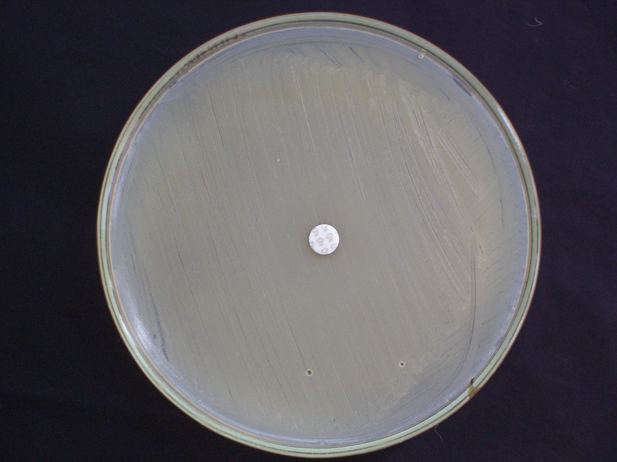 Muller Hinton agar with 4% NaCl showing a lawn culture of Staphylococcus aureus (MRSA)that is resistant to oxacillin disk (1 μg).